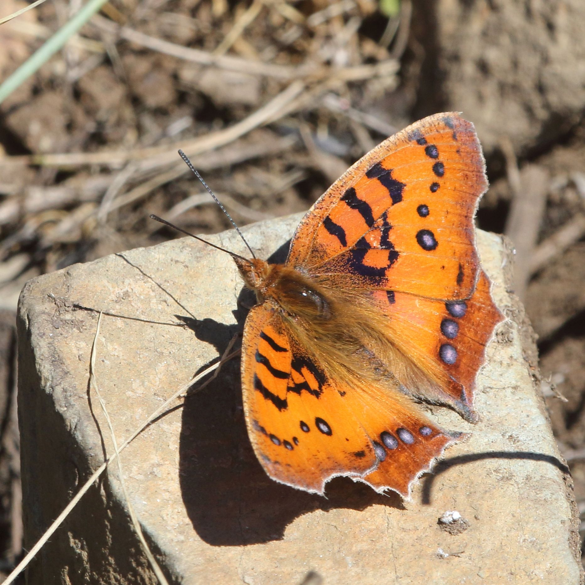 A Pirate butterfly Catacroptera cloanthe cloanthe at Mount Gilboa, KwaZulu-Natal, South Africa.